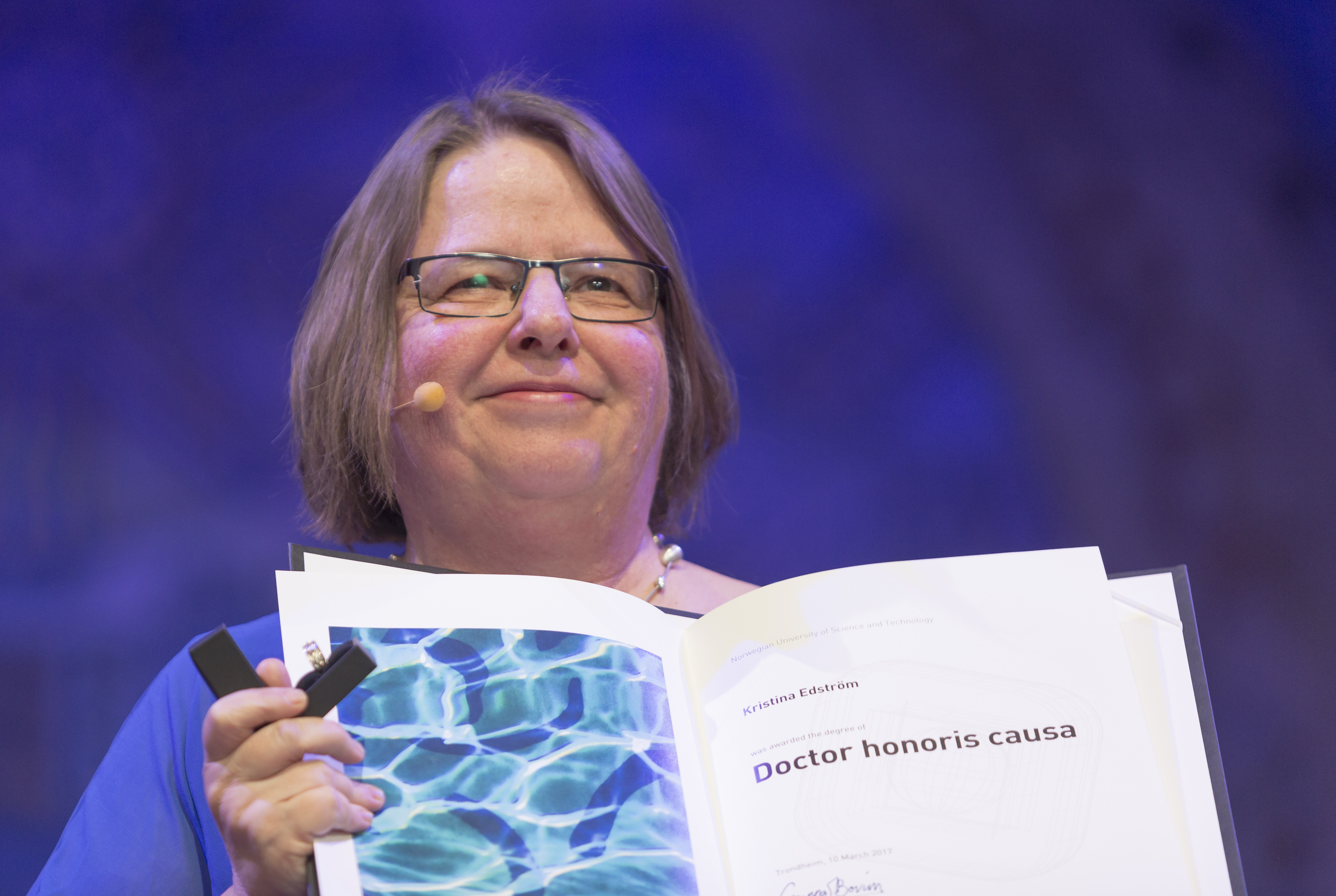 The Swedish scientists (chemist) Kristina Edström, with the diploma stating that she has received an honorary doctorate at Norwegian University of Science and Technology (NTNU)